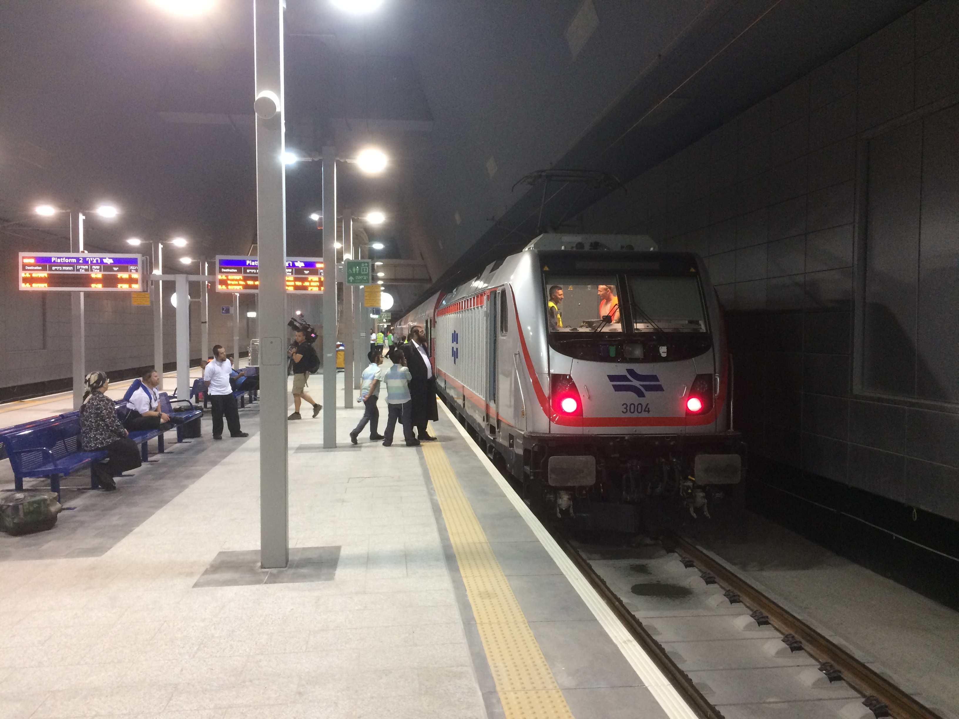 The train in Yitzhak Navon Station Jerusalem on the first day of the regular service, Sept. 25 2018